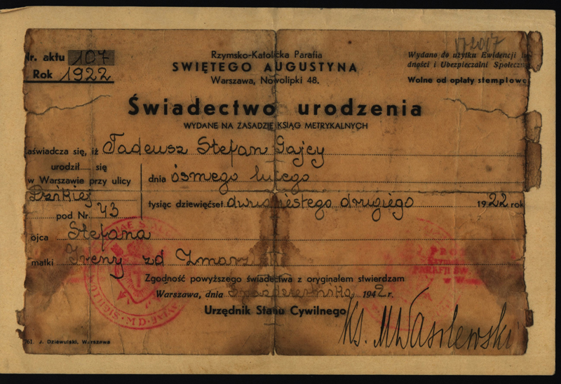 Birth certificate of Tadeusz Gajcy.